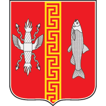 Lesser coat of arms of Mali Zvornik